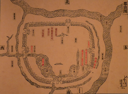 Ningbo old custom locations in Ming Dynasty, shot in Ningbo Museum